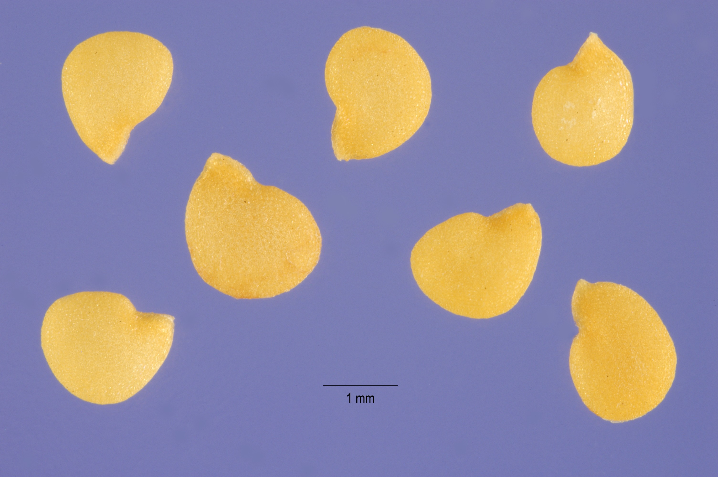 Seeds of Solanum nigrum